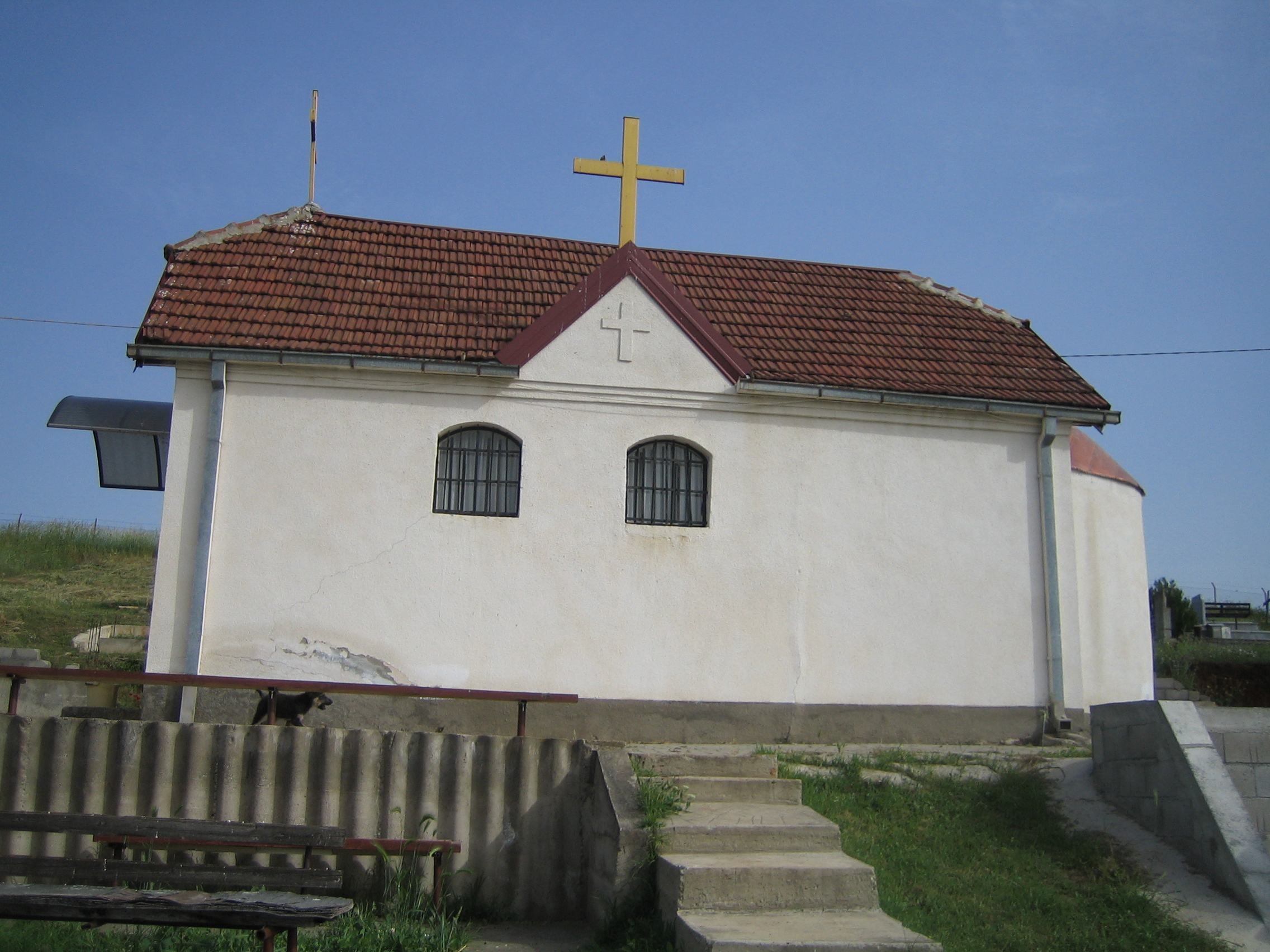 Church St. Atanas - Vizbegovo (Skopje)